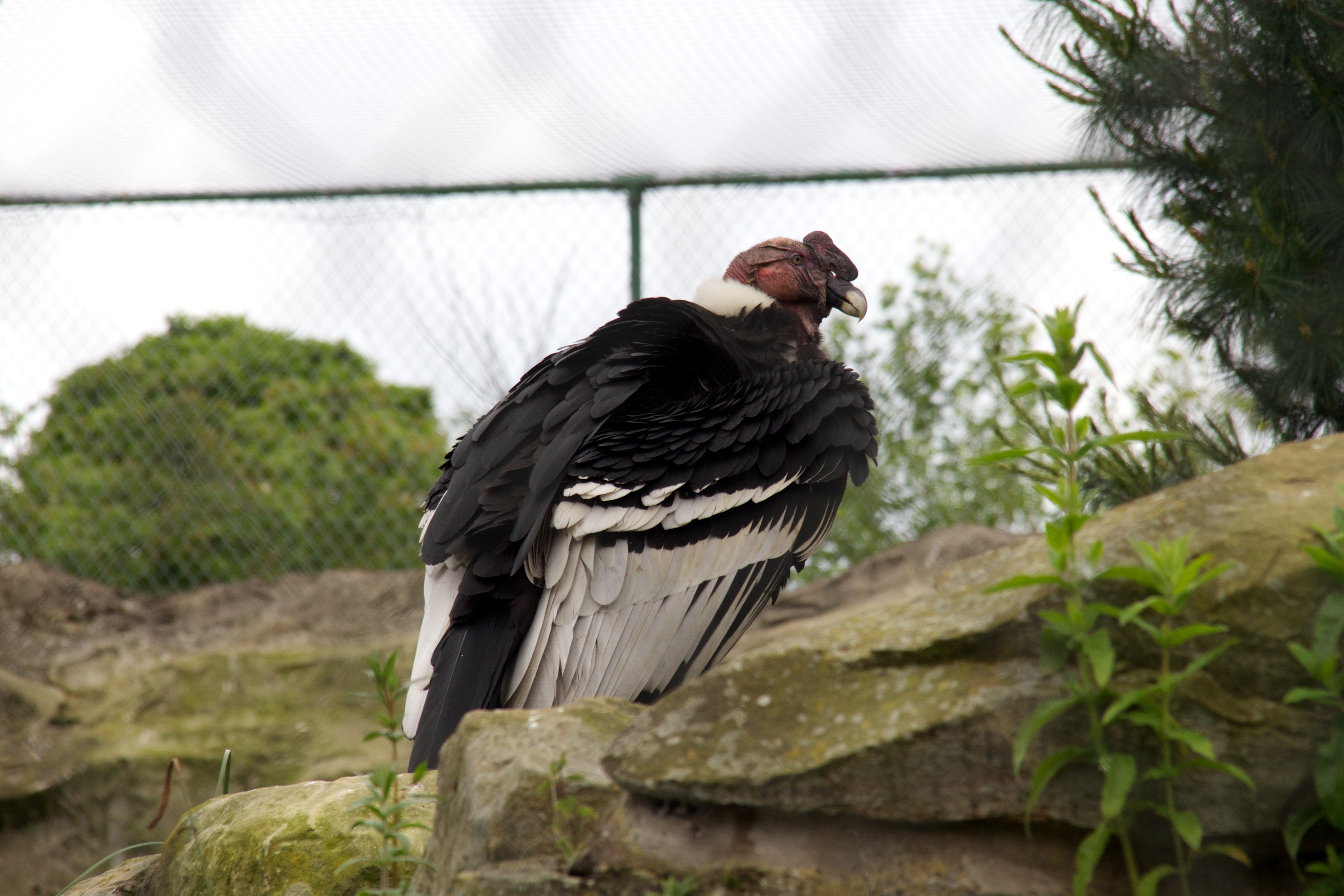 Andean Condor. Vultur gryphus. At Chester Zoo